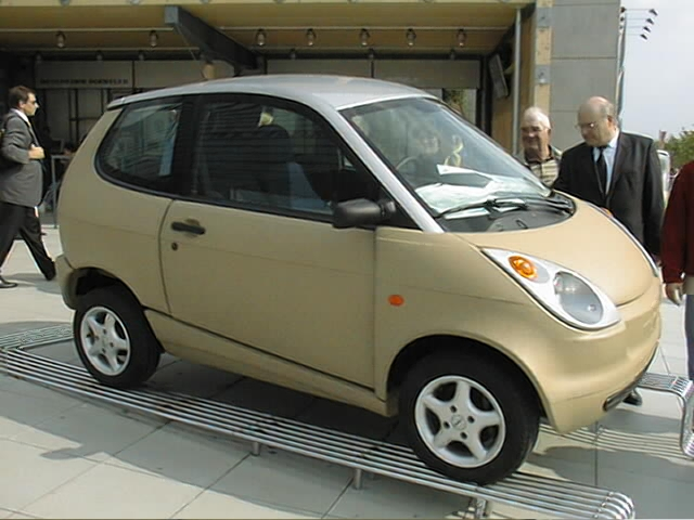 Th!nk electric car at Expo Hannover 2000.